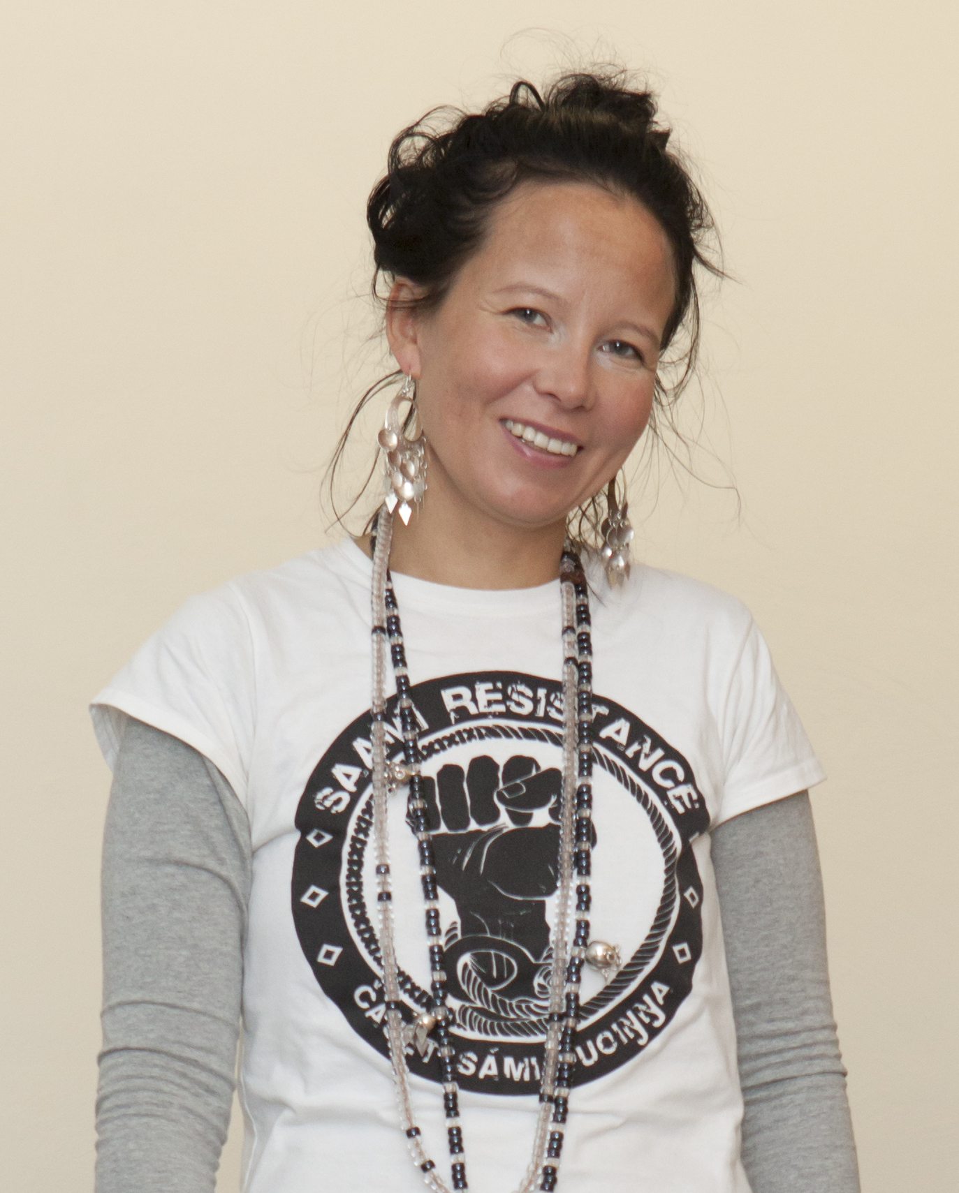 Kiasma; Eri mieltä, Nykytaiteen toisinajattelijoita, 09.10.2015 - 20.03.2016Suophanterror (Jenni Laiti)kuva / Photo:Kansallisgalleria / Pirje MykkänenFinlands Nationalgalleri / Pirje MykkänenFinnish National Gallery / Pirje Mykkänen